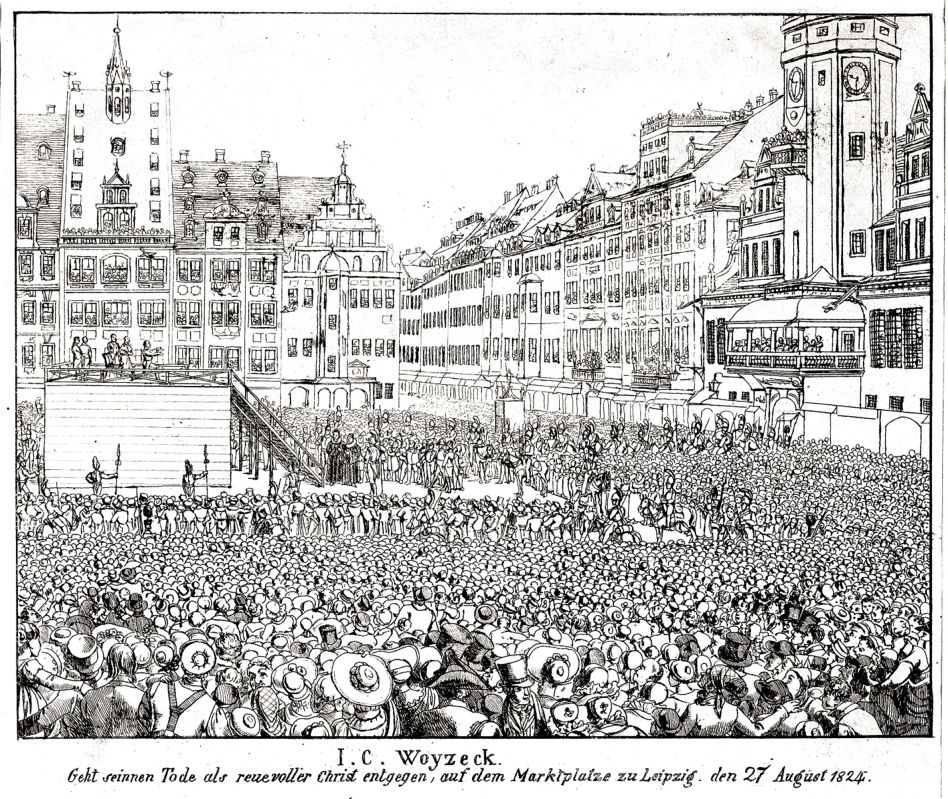 Johann Christian Woyzeck's execution on August 27, 1824 on the market place in Leipzig, pen lithography by C. G. H. Geissler